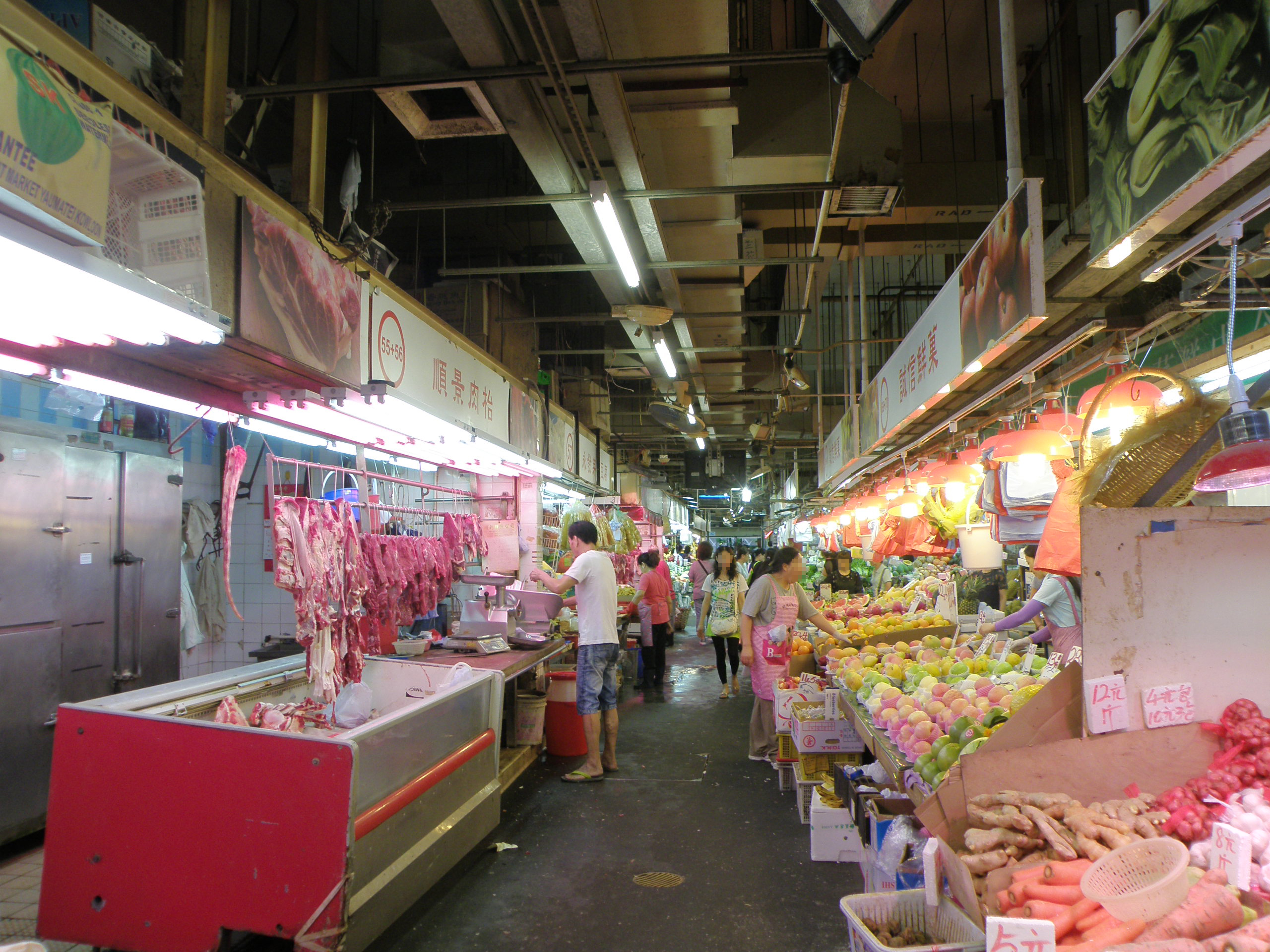 Sheung Tak Market in Tseung Kwan O, Hong Kong.